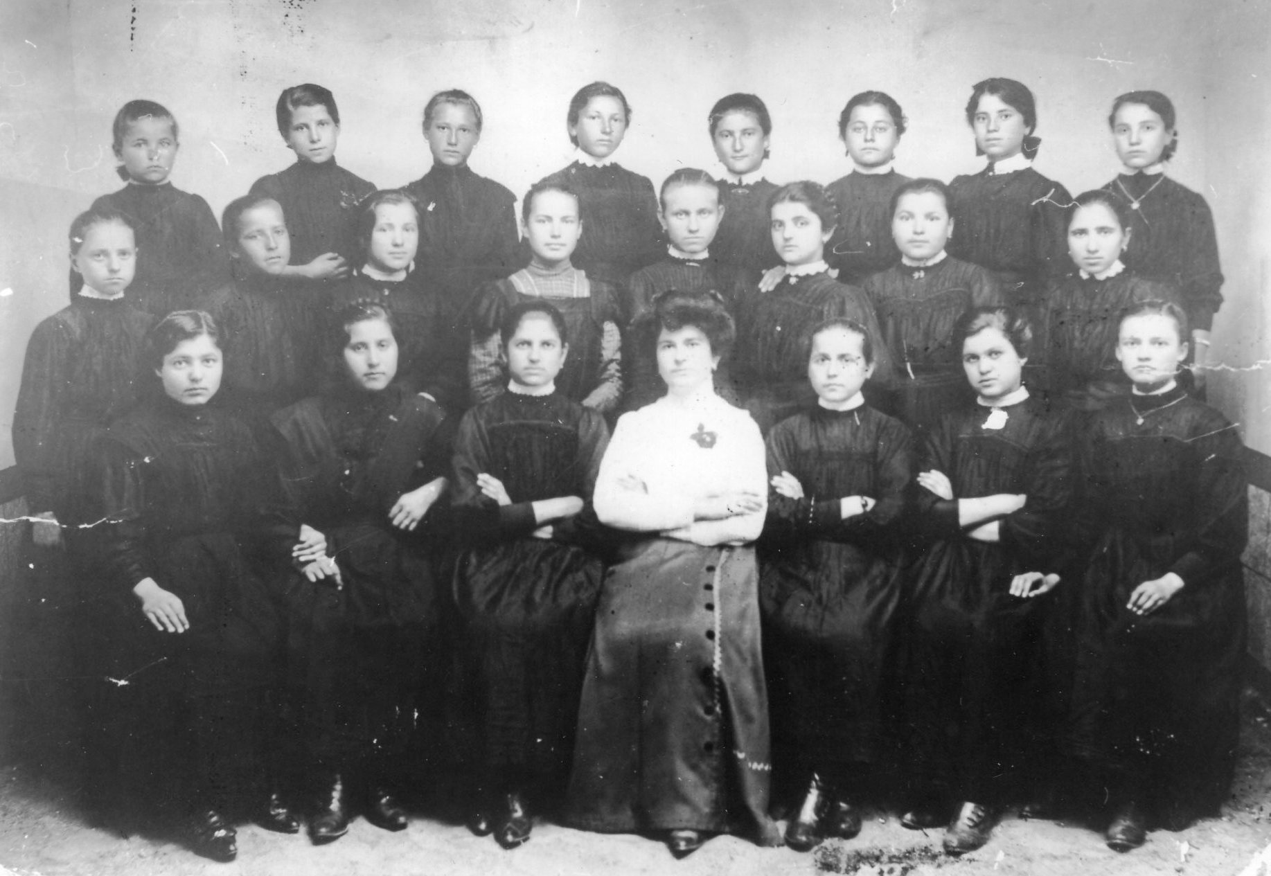 Students of women's school in Prilep with their class teacher, who participated in the strike in the boarding school in Thessaloniki. Generation 1908-1910 year This media file is produced by Wikipedian in Residence in Category:Wikipedian in Residence at DARM in 2016.